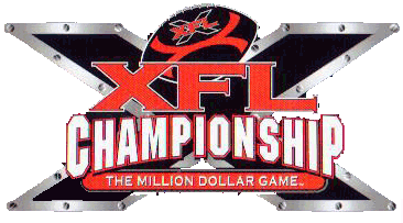 Logo of The XFL's Million Dollar Game